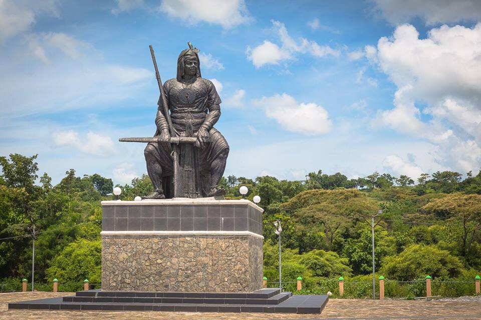 Dom Boaventura Park